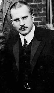 Carl Gustav Jung